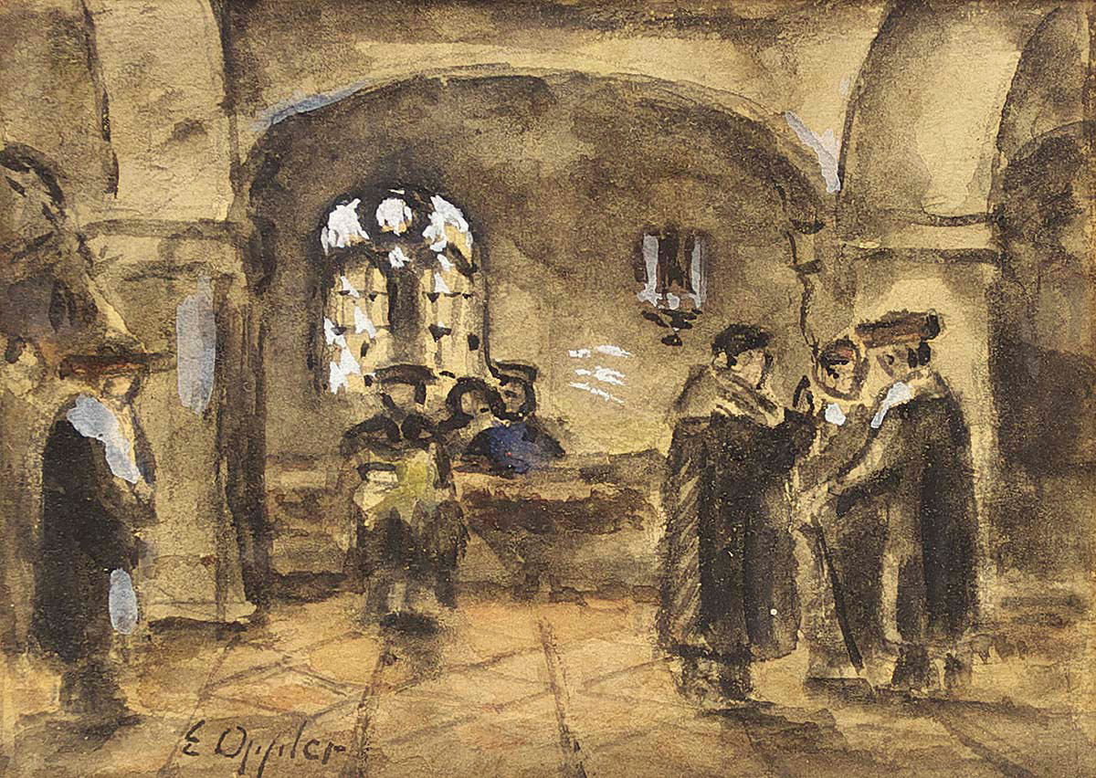 In a synagogue in Hungary, 9.25 x 11.25 inch